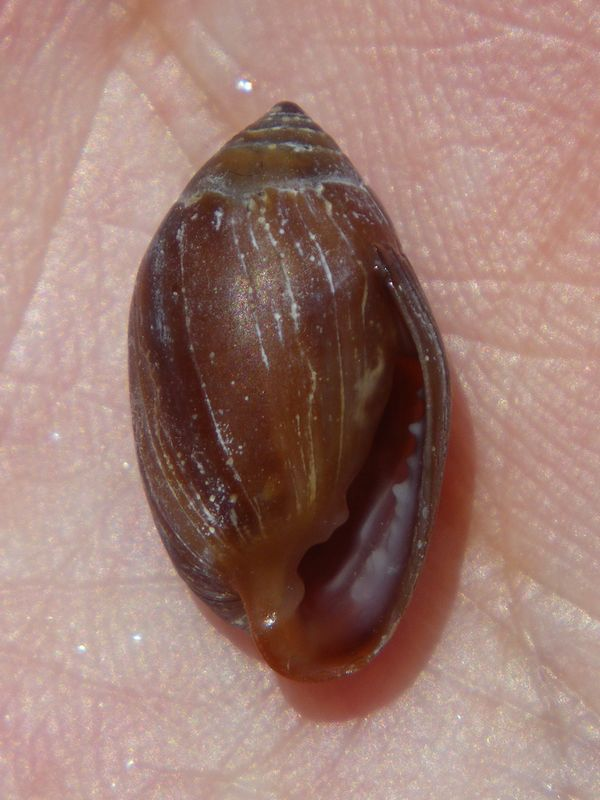 Melampus nuxeastaneus Kuroda,1949.Shell height 14mm.at Nagasaki